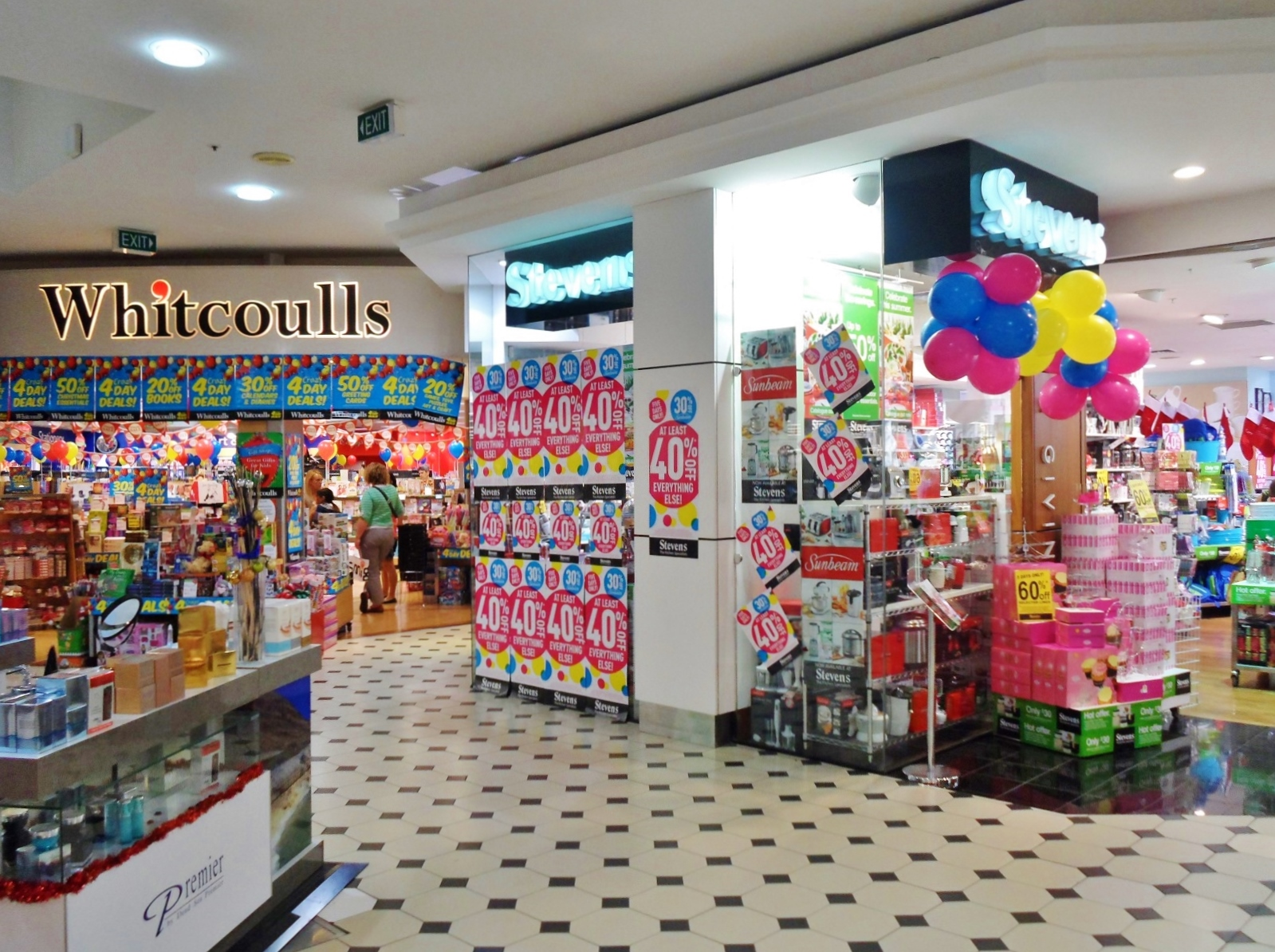 New Zealand book and stationery store Whitcoulls' Newmarket store and New Zealand kitchenware and tableware retailer Stevens' Two Double Seven store at Westfield 277 in Newmarket, Auckland, New Zealand in 2013.